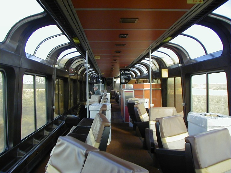 Upper level of Superliner I Sightseer Lounge (formerly Lounge Café) car.